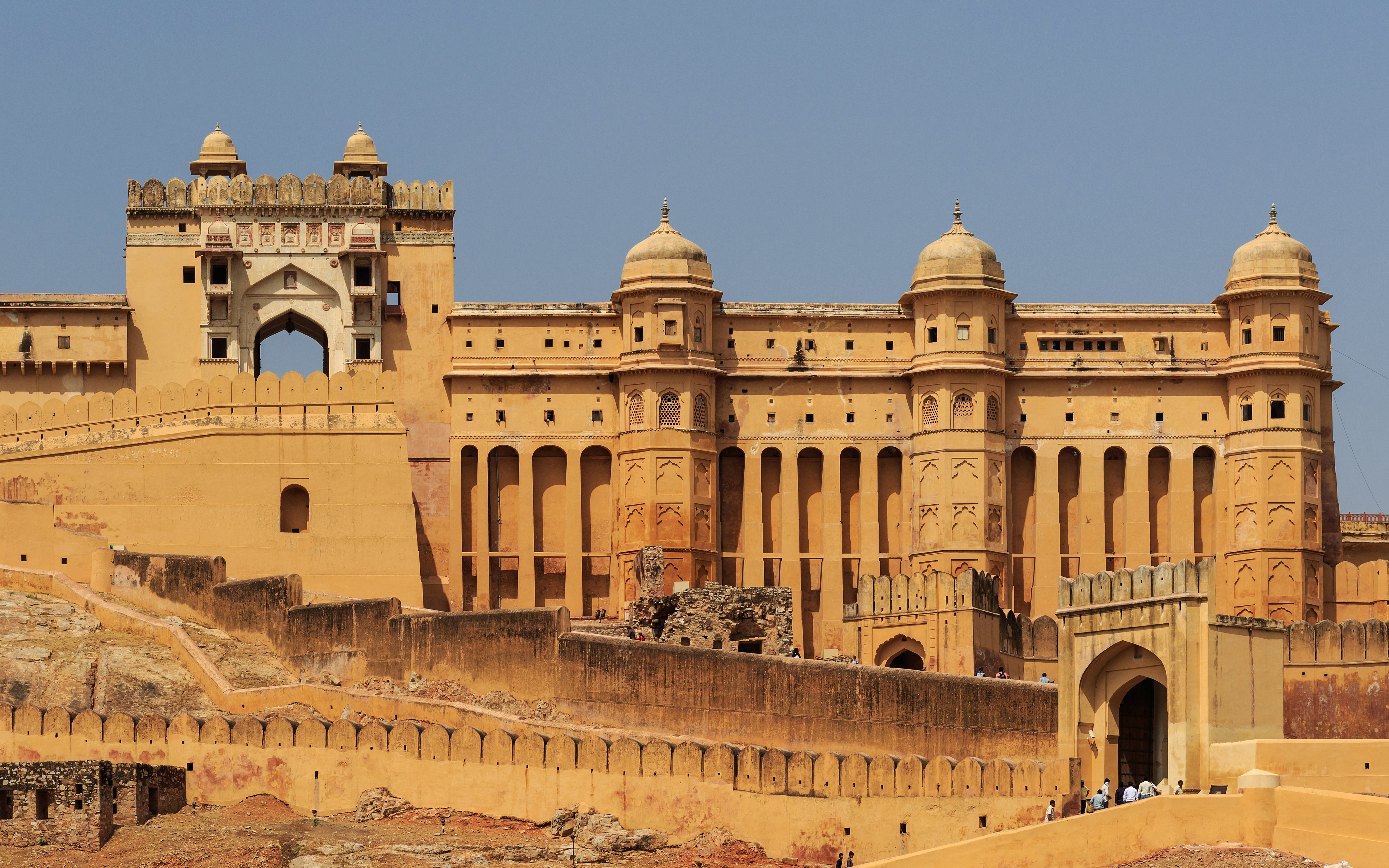 Amber Fort in Jaipur, India